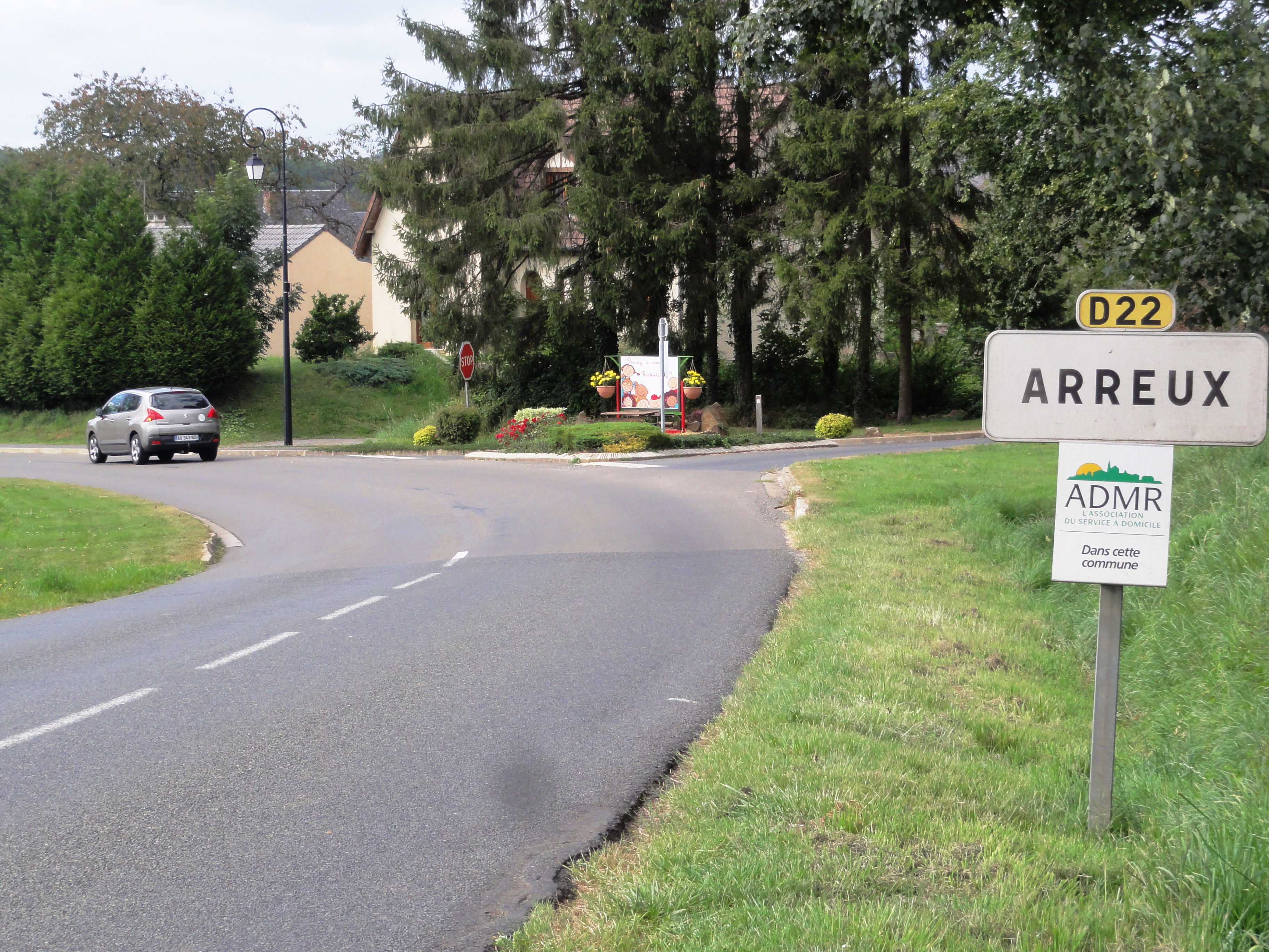 Arreux (Ardennes) city limit sign